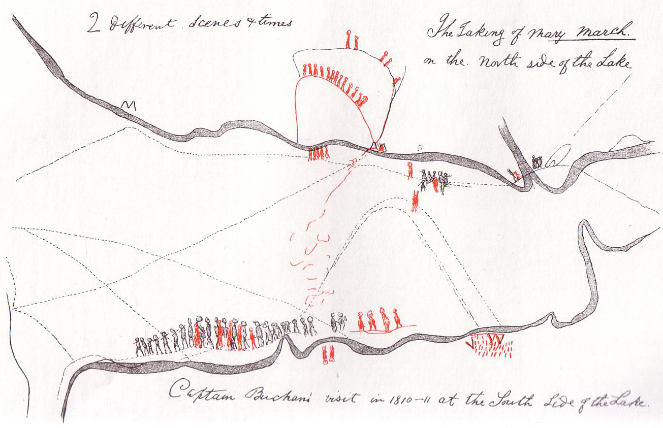 Label of the drawining : « The taking of Mary March on the north side of the lake ». Illustration of the taking of Demasduit (Mary March) on the Red Indian Lake, drawn by Shanawdithit during the winter of 1829.